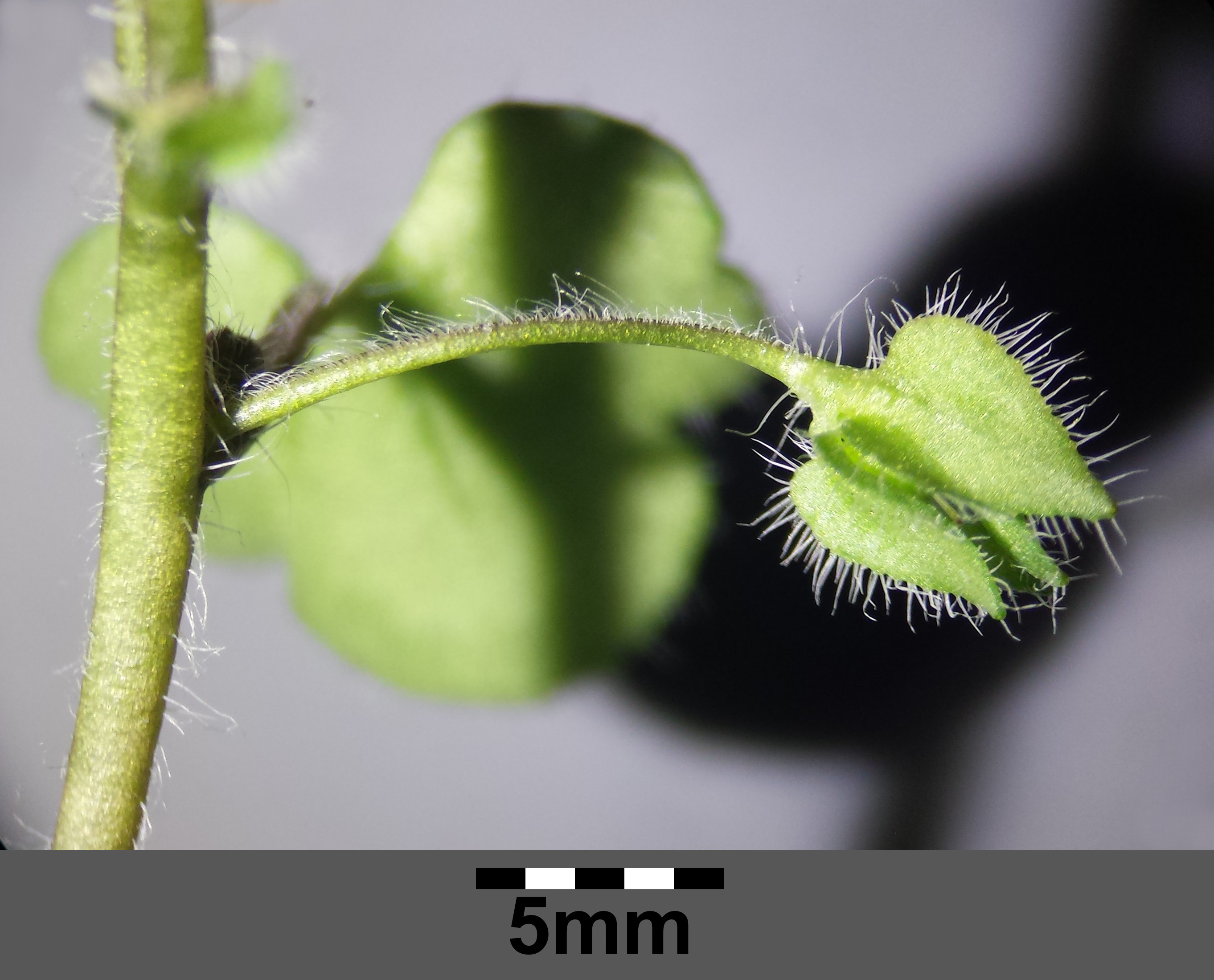 Part of infructescence with fruit and bract Taxonym: Veronica hederifolia s. str. ss Fischer et al. EfÖLS 2008 ISBN 978-3-85474-187-9 Location: Sinawastingasse, Vienna-Floridsdorf - ca. 160 m a.s.l. Habitat: slope